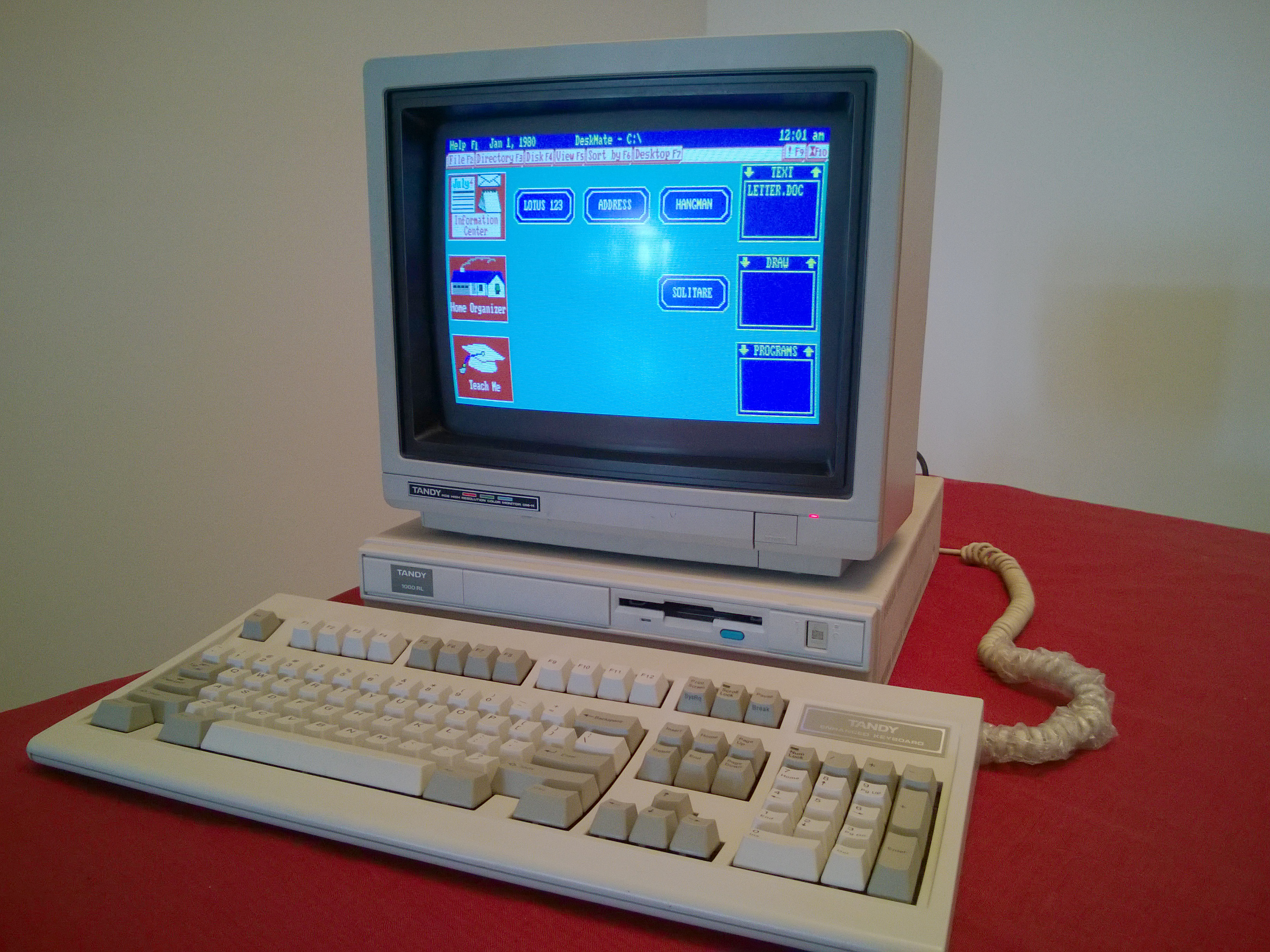 Tandy 1000 RL Computer (mouse not pictured)